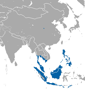 Large Flying Fox (Pteropus vampyrus) range